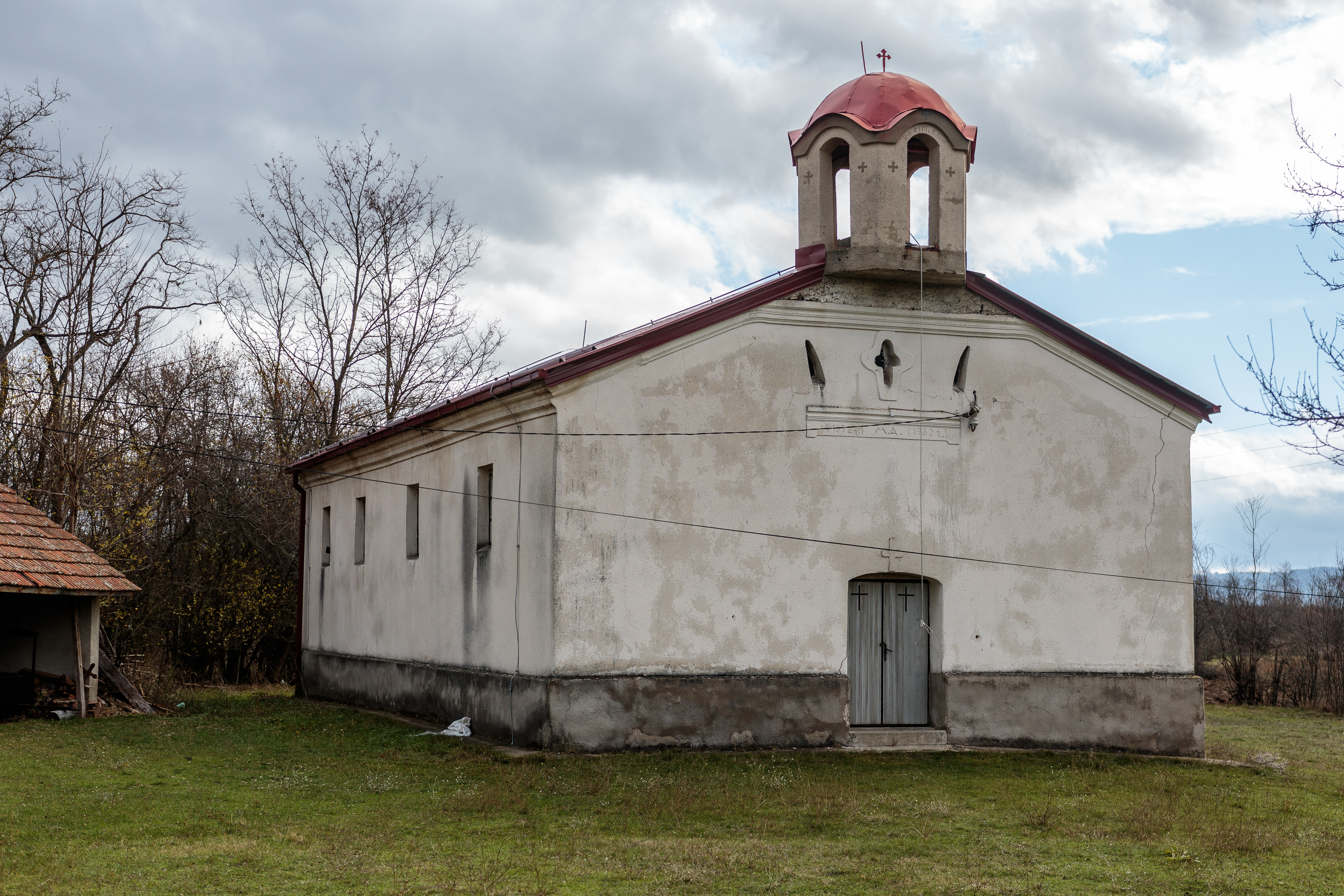 St. Athanasius Church in the village of Mačevo, Maleševija, Macedonia